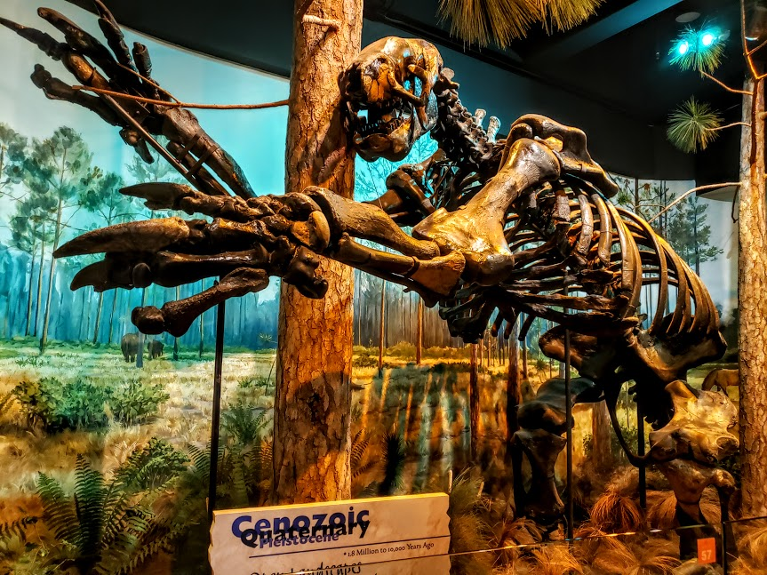 Fossil of a giant ground sloth (Eremotherium eomigrans) in the NC Museum of Natural Sciences, 3rd floor.